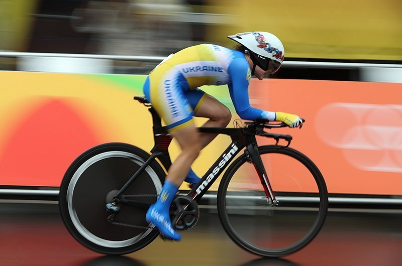 Cycling at the 2016 Summer Olympics – Women's road time trial